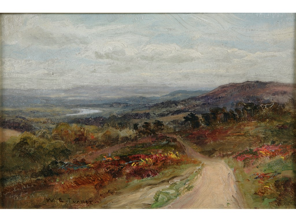 Leith Hill by William Lakin Turner. Leith Hill, near Dorking, Surrey, is the highest point on the Greensand Ridge